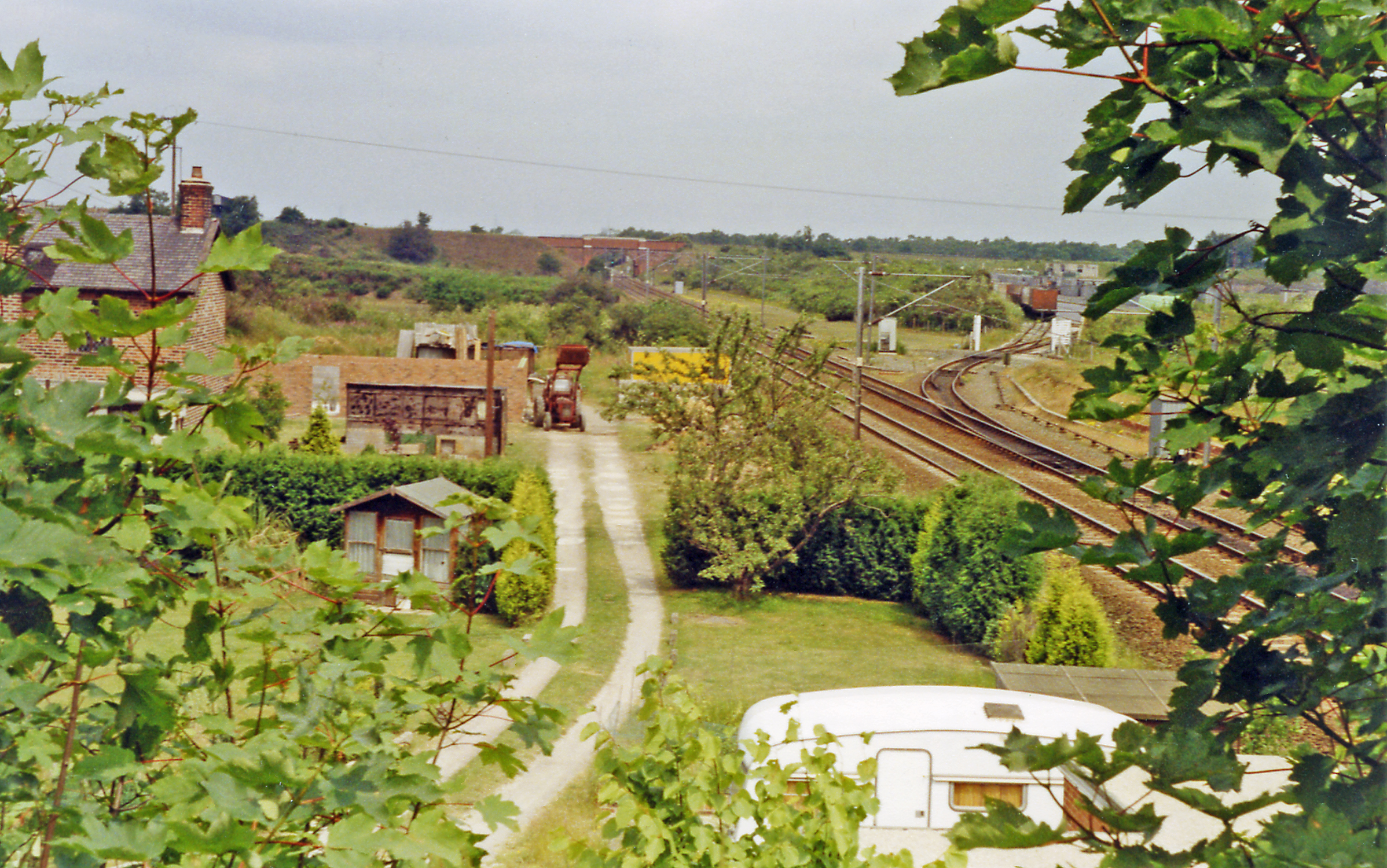 Site of former Heck station, East Coast Main Line 1992. View northward from Heck - Pollington Lane, towards York etc.: ex-NER (Doncaster) - Shaftholme Junction - Berwick-upon-Tweed section of the ECML. Heck station was closed to passengers 15/9/58, to goods 29/4/63, but the line remains, albeit since 1983 not running through Selby. There is an active branch to the left here into about four sidings, which serve plants engaged in prodcing aggregates and concrete blocks and pipes, notably the Plasmor Co, which has its own fleet of wagons and despatches at least one train of 25 wagons a day. (Cf. also SE5921 : Heck railway station (site), Yorkshire). The awful multiple crash at Heck in 2001, caused by a car running off the road onto the railway, did not occur here but just to the north where the M62 crosses.